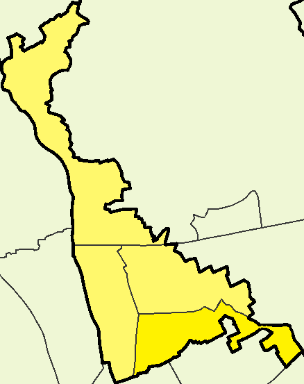 Chalkoutsa in Mesa Geitonia.